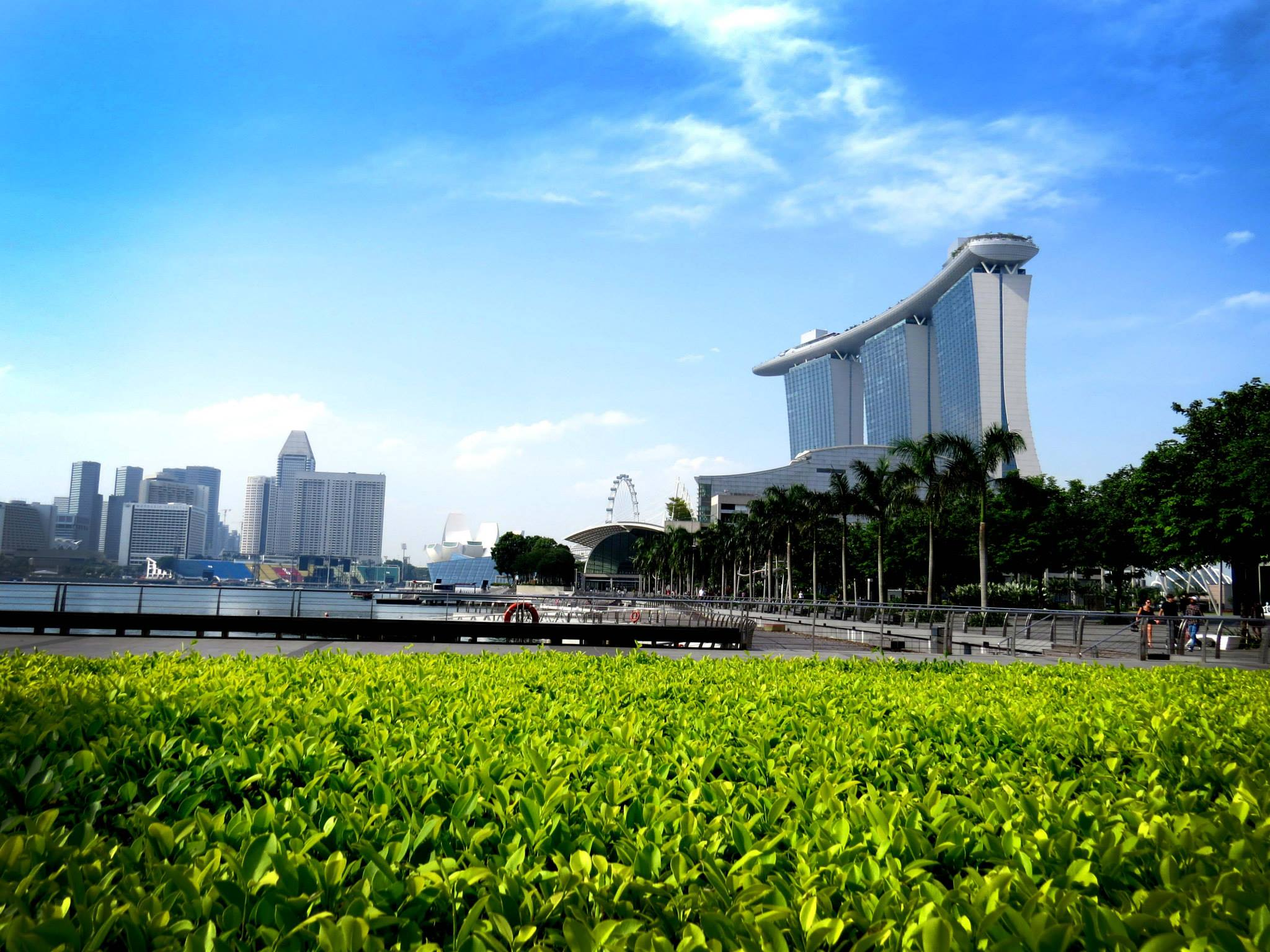 Marina Bay Sands (right) and other buildings at Marina Bay, viewed from Marina Boulevard, Singapore.